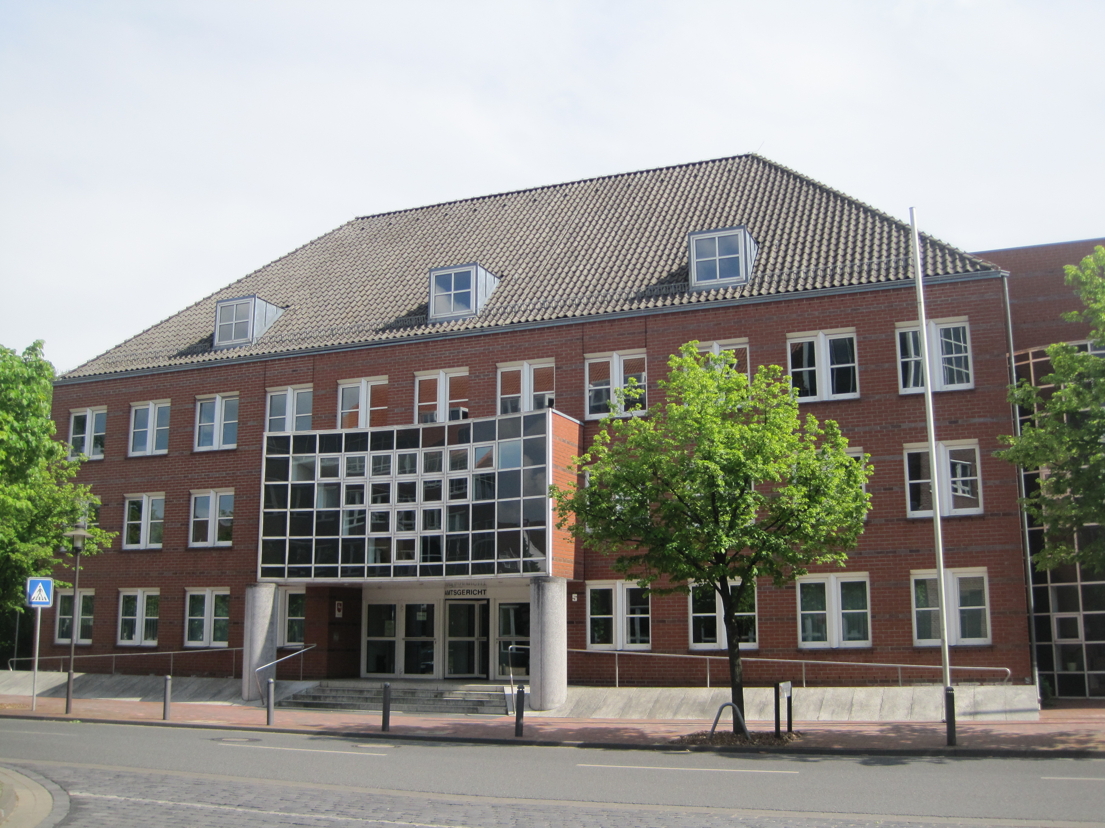 Courthouse Amtsgericht, Uelzen, Germany check usage